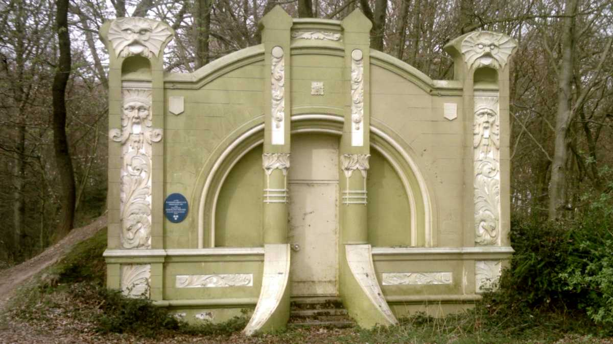 Elevated Underground Water tank, Süchteln Heights, Süchteln, Viersen, Germany.